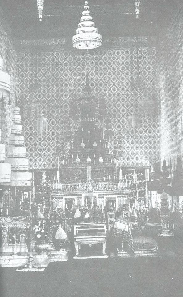 Royal Funerary Urn of Saovabha Phongsri atop Pra Thean Suwan Benjadol in Dusit Maha Prasat Hall